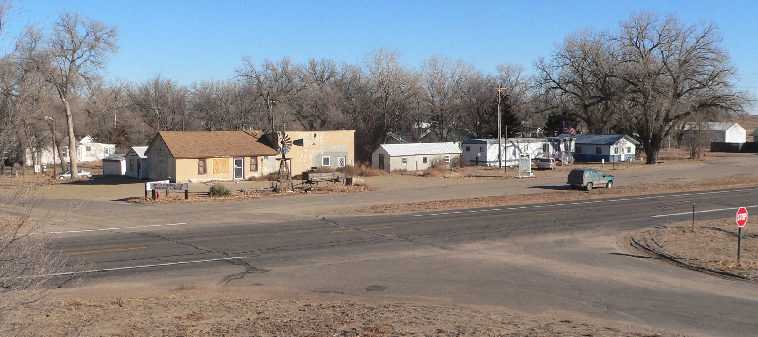 Wood Lake, Nebraska: businesses on U.S. Highway 20 at Main Street.